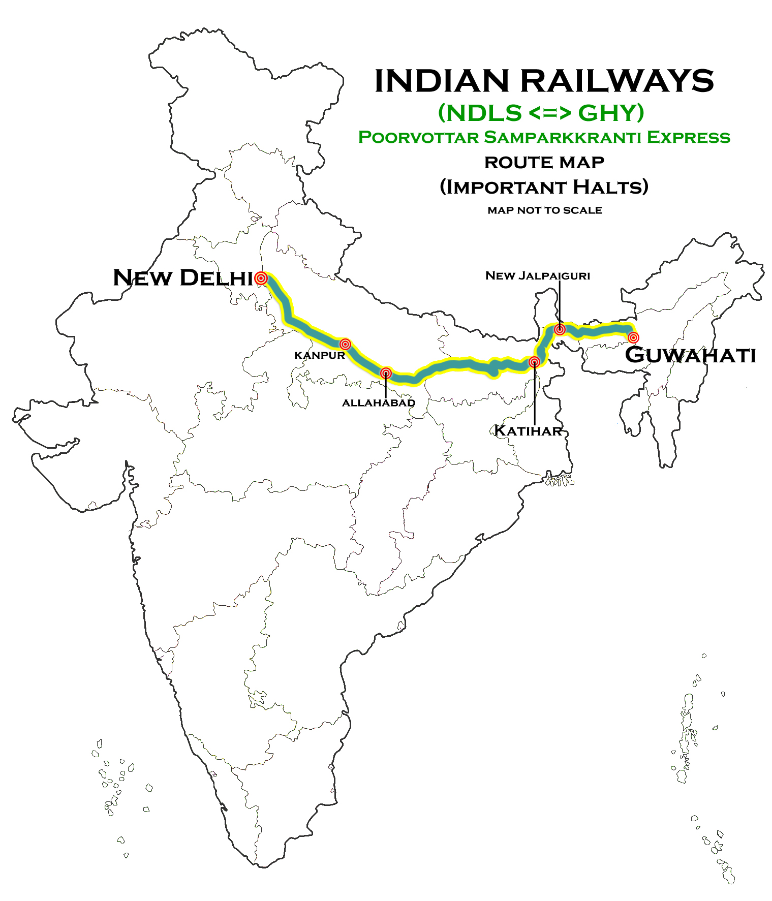 Poorvottar Samparkkranti Express (NDLS - GHY) Route map